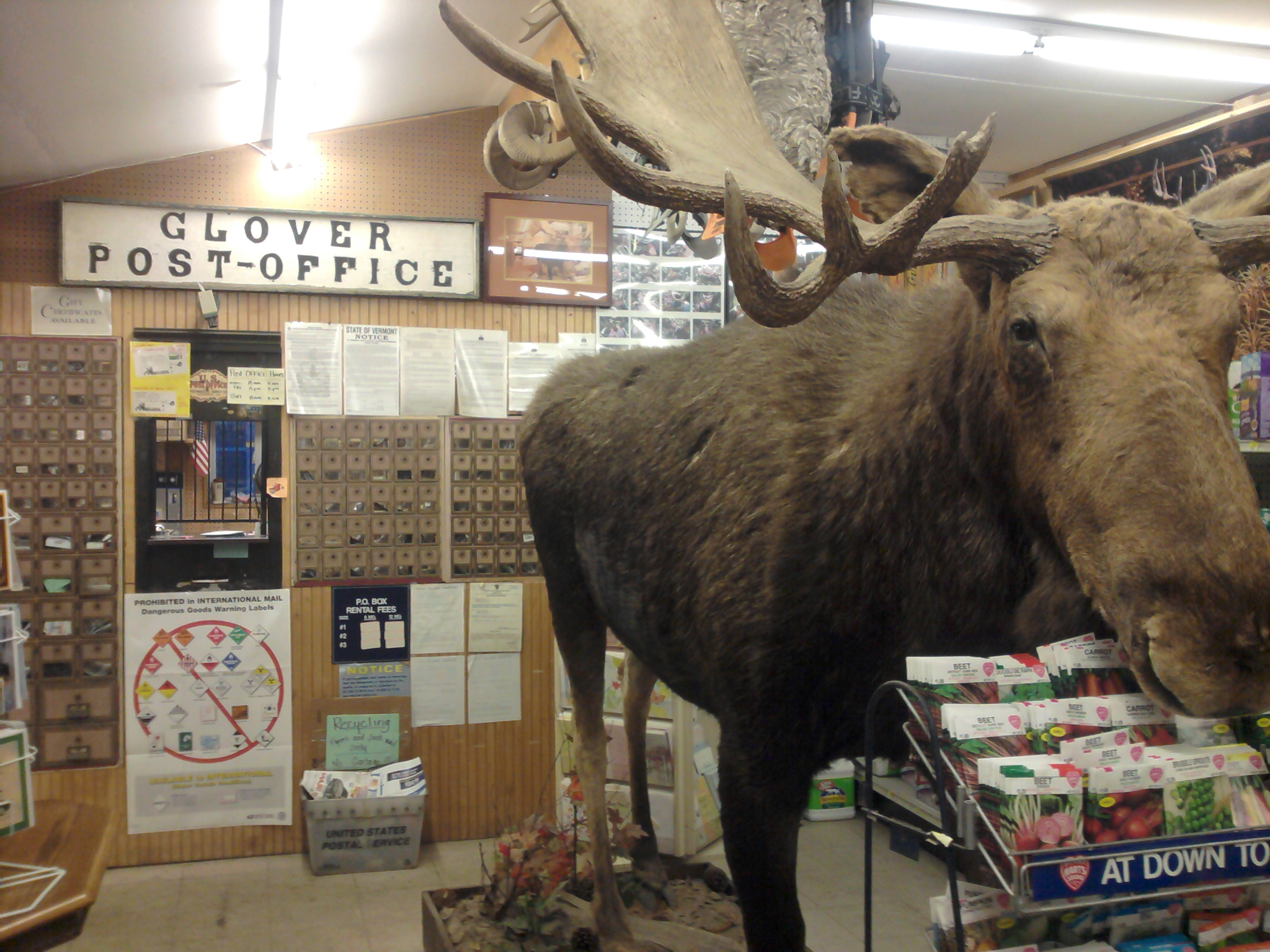 Post office inside Currier's Quality Market (general store) at 1 Main Street in Glover Vermont--with stuffed moose.